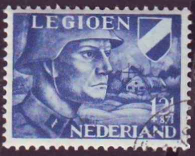 Semi-postal stamp for the Dutch Legion, fighting for Germany during WW II. Issued during the German occupation, 1942, NVPH catalogue 403.